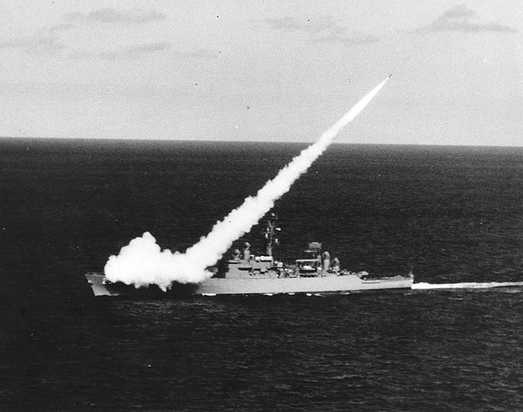 The U.S. Navy guided missile cruiser USS Bainbridge (DLGN-25) fires a RIM-2 Terrier guided missile from her forward launcher, during sea trials, probably circa November 1962.